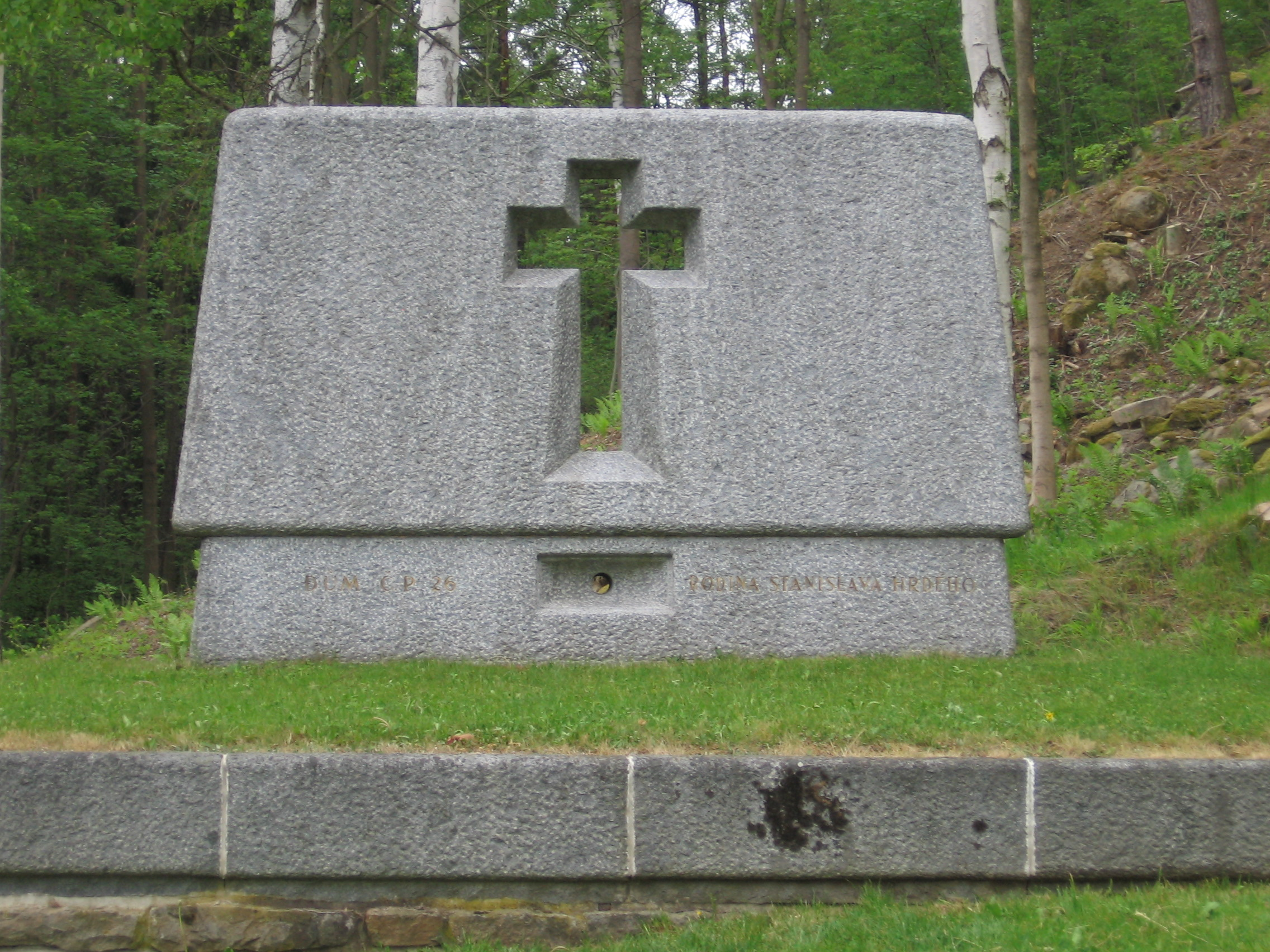 Tomb-house issue descriptive 26, lived here family of Stanislav Hrdy.